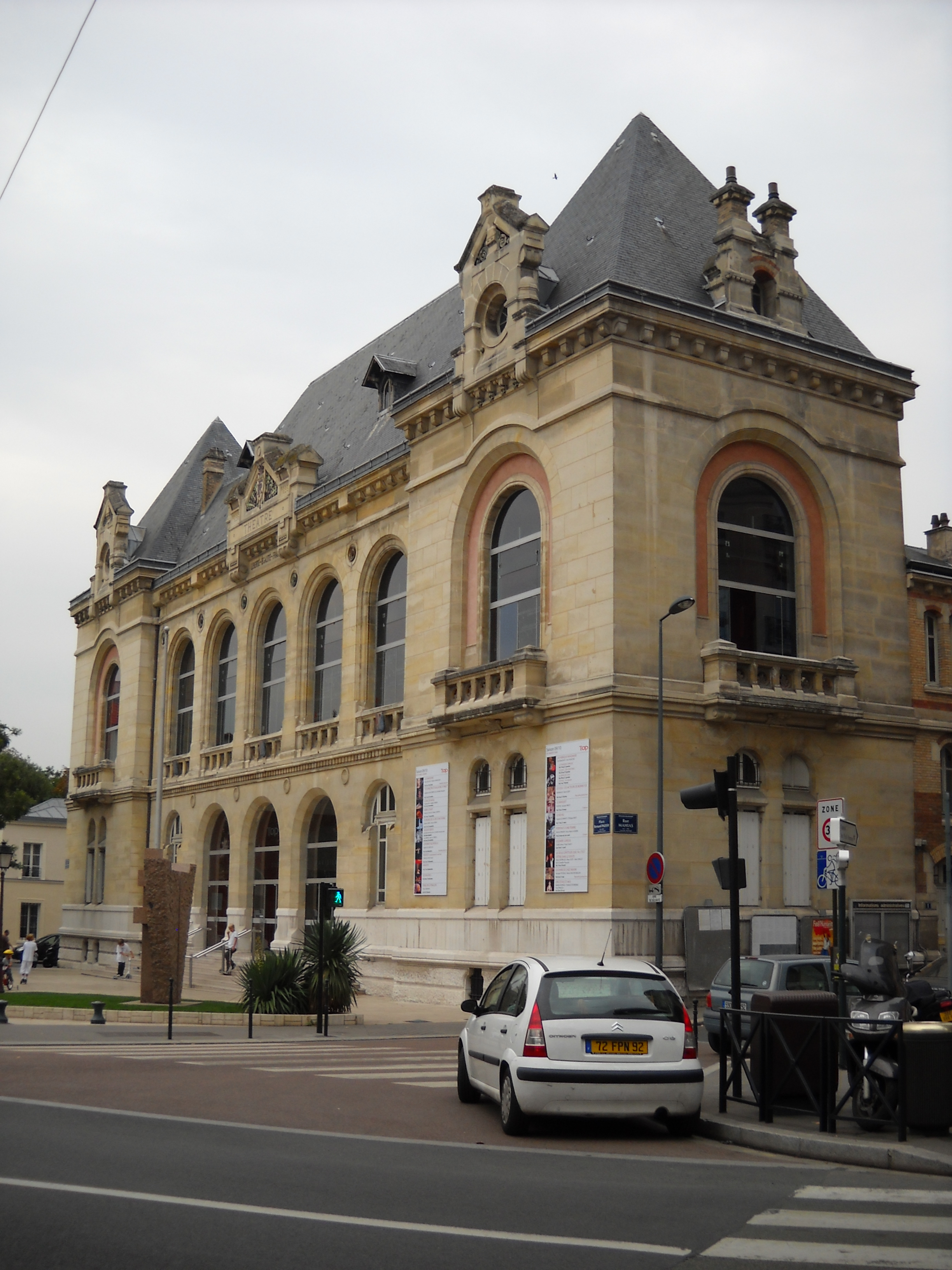 Theater in Boulogne-Billancourt, Hauts-de-Seine, France.